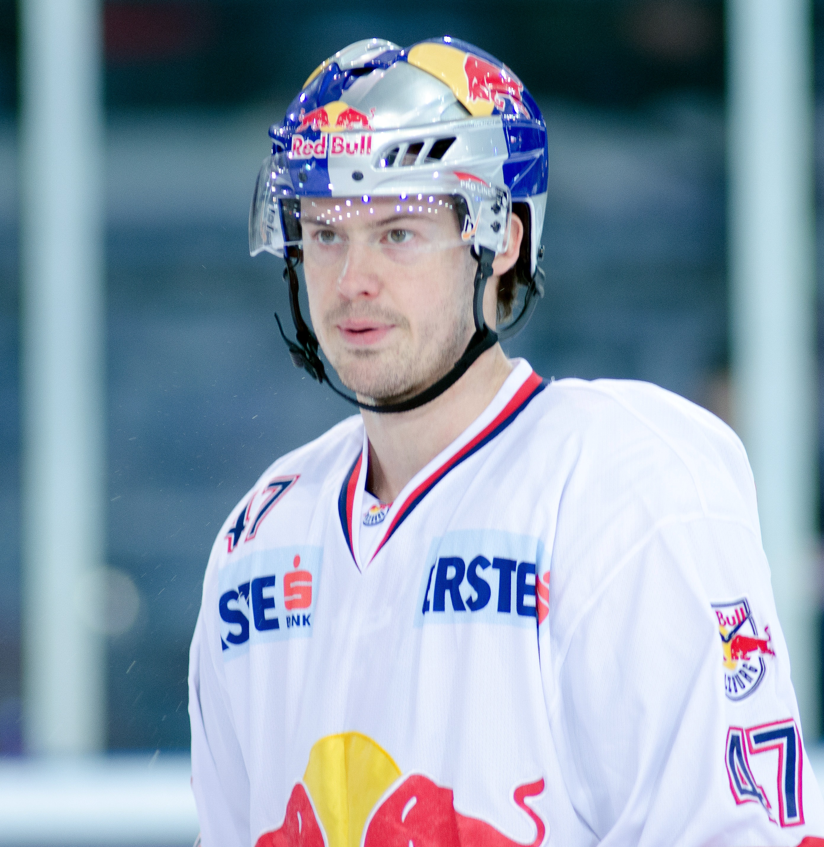 01.11.2013,Eisarena Salzburg, AUT, EBEL, 32. Runde, RBS EC Salzburg vs. EC VSV, im Bild Evan Brophey,(EC RED BULL SALZBURG, #47),// frostworx Pictures © 2013, PhotoCredit: frostworx / Alex Micheu